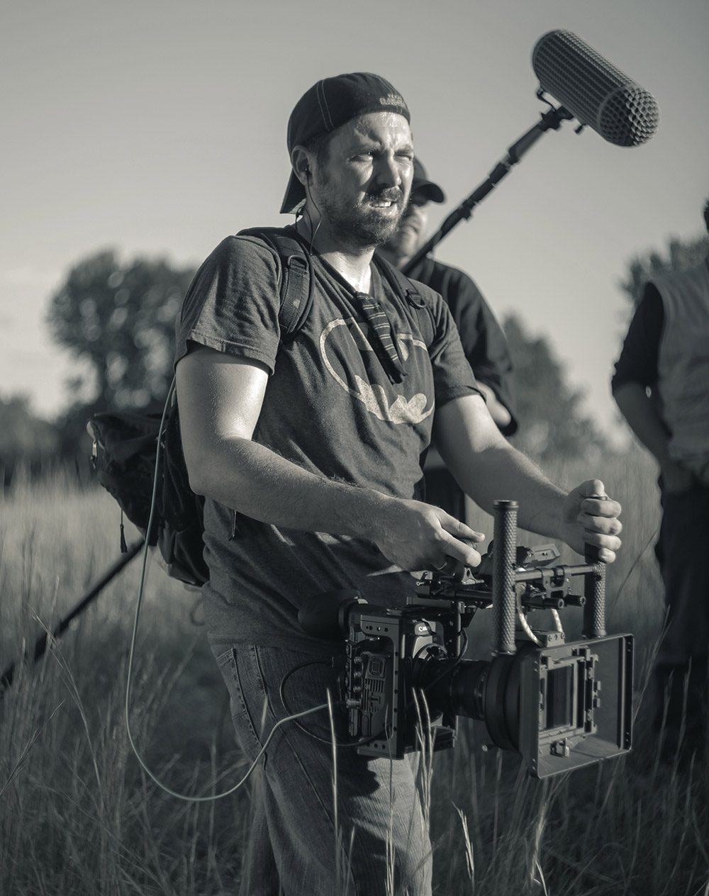 Ryan Connolly is Creator/Host of Film Riot & Film State, the online shows that let him share how-to filmmaking tips, get feedback on his work. Today, his renegade style has earned him a loyal online following of over half a million and his company Triune Films continues to produce weekly online video content like Film Riot and Variant as well as short films, such as the successful TELL, LOSSES and PROXiMITY. Ryan Connolly (presenter)